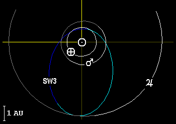 Part of the orbit of the comet 73P/Schwassmann-Wachmann